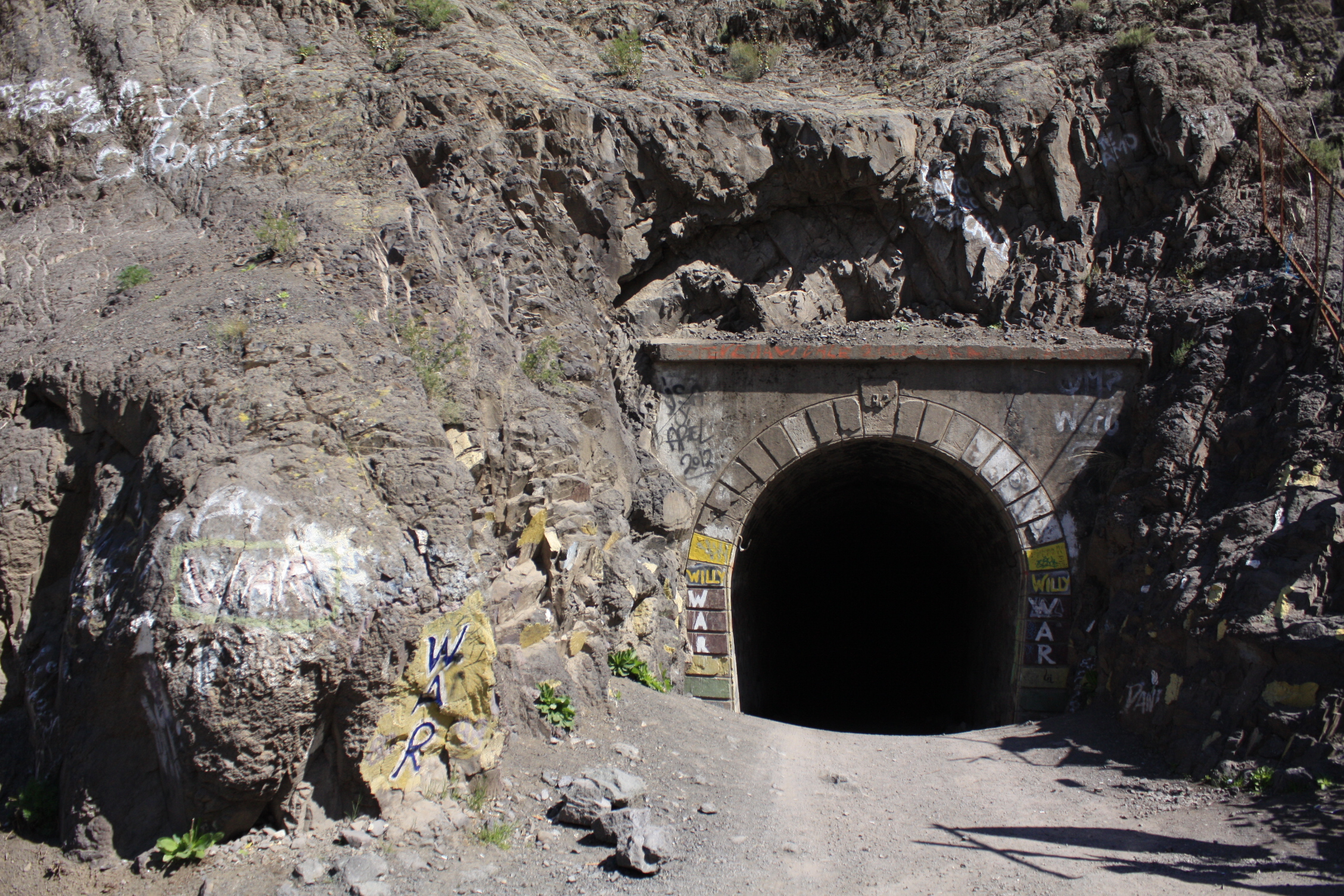 This is a photo of a national monument in Chile: 881